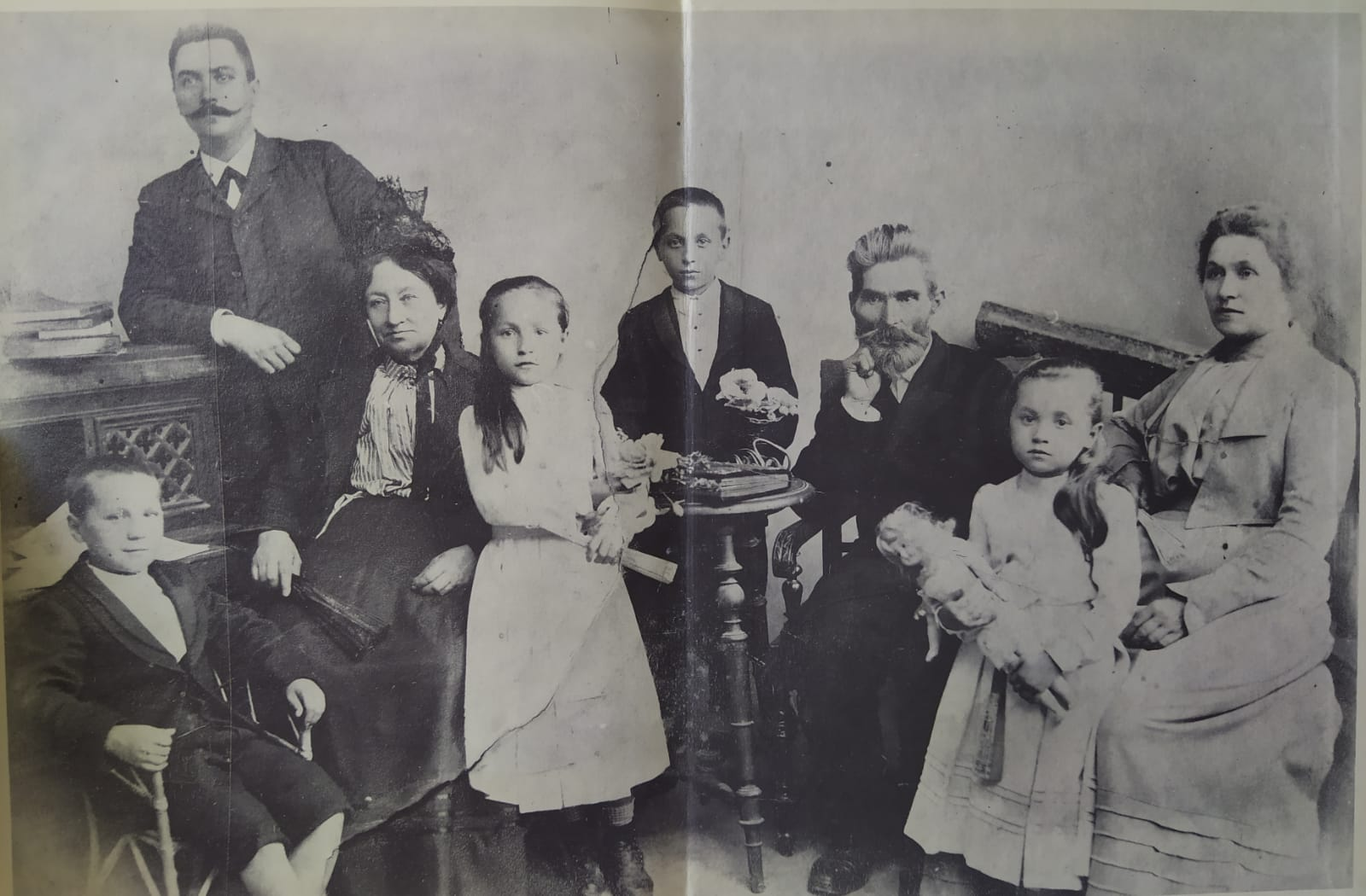 The Bešević Family: Petar (younger), Stevan, Mileva, Milica, Nikola, Petar, Vukosava and Olga. Српски (ћирилица): Породица Бешевић: Петар (млађи), Стеван, Милева, Милица, Никола, Петар, Вукосава и Олга.